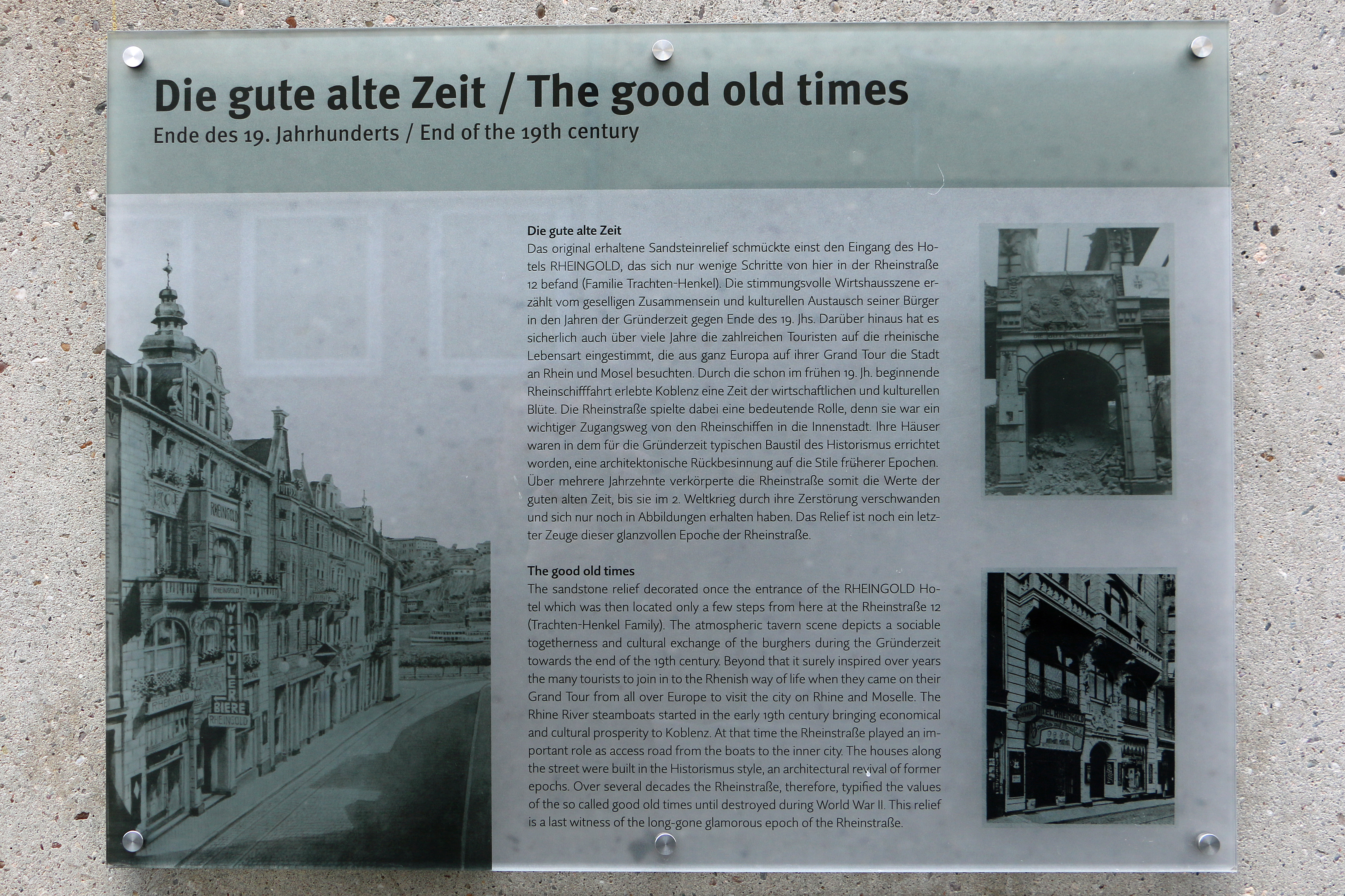 Relief “The good old times” in Koblenz